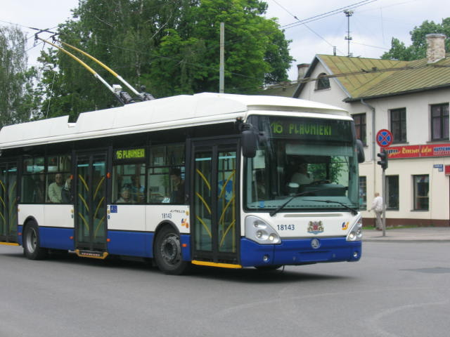 Trolleybus in Riga